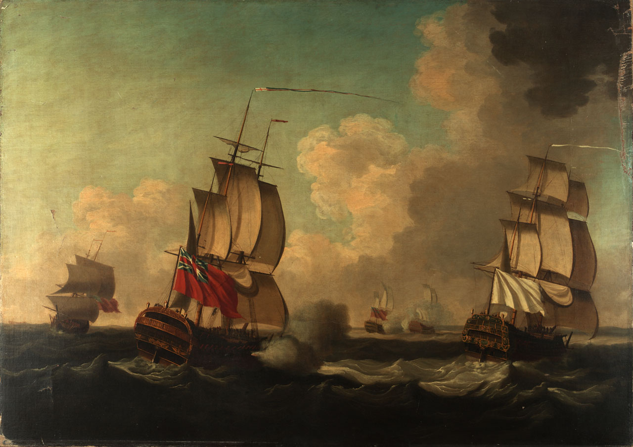 The Capture of the 'Alcide' and 'Lys', 8 June 1755 On the belief that the French were preparing to build up their military presence in America, in April 1755 an English naval squadron was despatched to America. The aim was to catch the French fleet in a net of British war ships. In charge was Admiral Boscawen who, having received his orders, got his fleet of 14 ships underway, followed soon afterwards by seven more ships under Admiral Holbourne. By the end of May, 1755, a British war fleet was cruising between the southern coast of Newfoundland and the northern coast of Cape Breton. At the same time, after a considerable delay the French fleet left Brest on 3 May, 1755. Aboard were 3,000 troops, with Admiral de la Motte in charge of the French fleet which had been dispatched with provisions for the French colonies in North America. In foggy conditions off the Newfoundland Banks, four French warships of de la Motte’s fleet became separated from their fleet and were sighted on 6 June and chased. They played hide and seek in the fog until two of them were brought to action and taken. A third that had been sighted and chased and escaped in the fog. Even though war was not officially declared, Boscawen had been ordered to attack any French squadron he met. The French ‘Alcide’ and ‘Lys’ were captured which resulted in the first shots of the Seven Years War, 1756-1763. In the foreground of this contemporary painting, the ‘Defiance’, commanded by Captain Thomas Andrews is firing into the French warship the ‘Lys’, which is not replying. Between the two ships in the background can be seen the ‘Dunkirk’ commanded by Captain the Hon. Richard Howe and the ‘Alcide’ commanded by Captain de Hocquart. On the left an English merchantman is shown coming towards the viewer. The Capture of the 'Alcide' and 'Lys', 8 June 1755